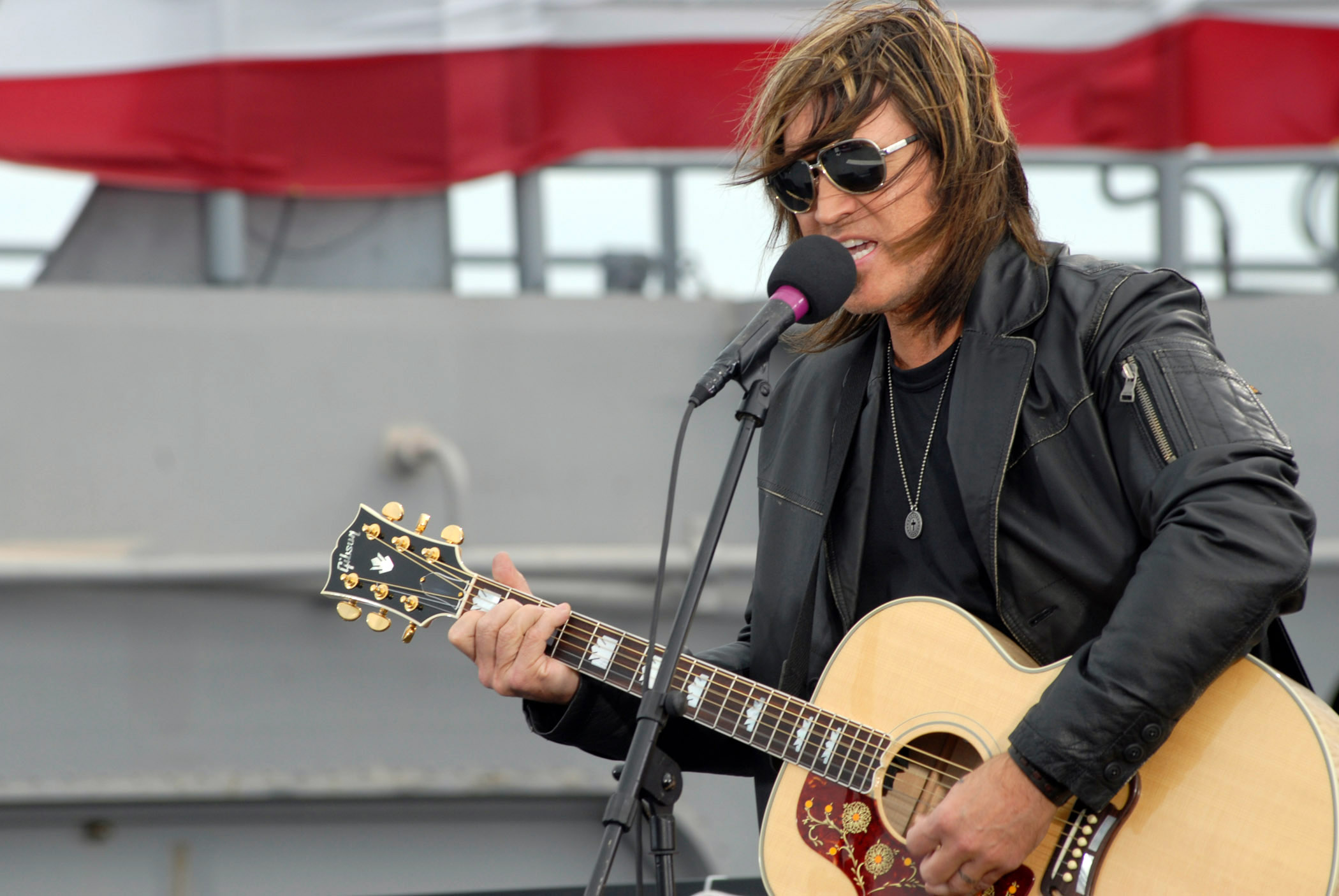 Billy Ray Cyrus playing on his guitar.